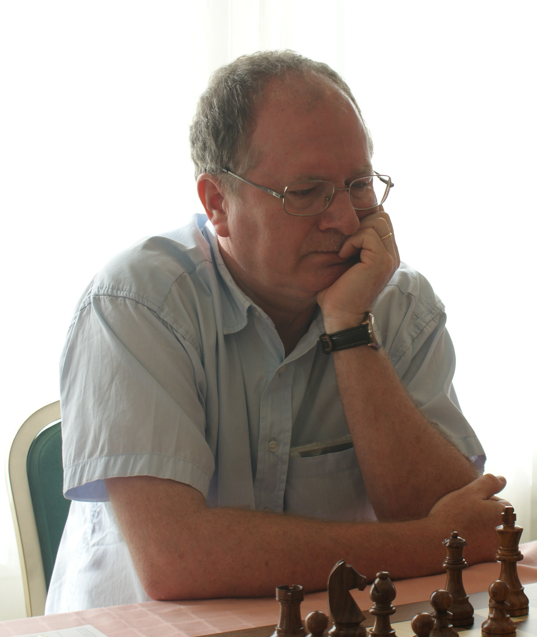 GM Kevin Spraggett (Canada) XXVIII Obert Internacional d'Andorra Ronda 9 Hotel St. Gothard - Erts